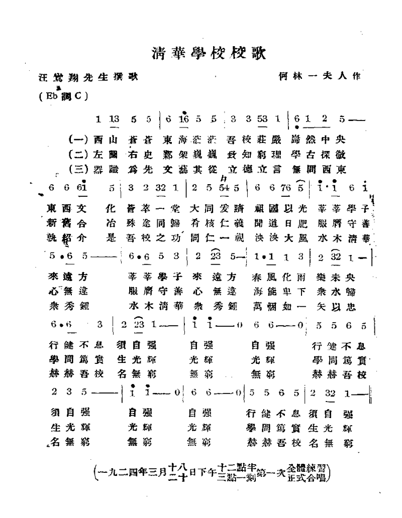 The Song of Tsinghua University